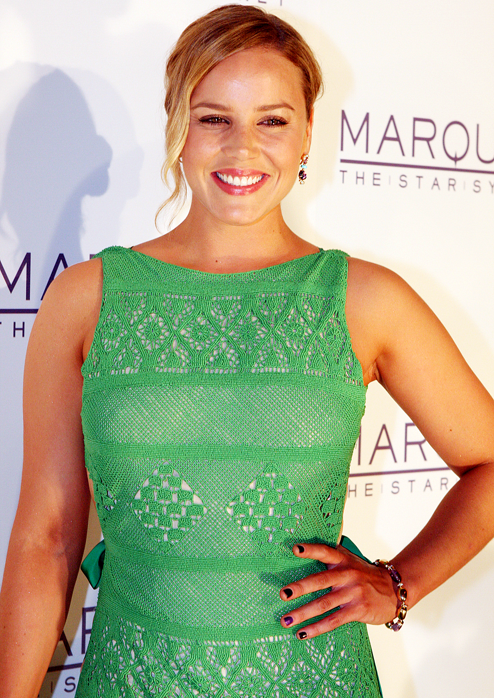 Abbie Cornish at the Paris Hilton: Marquee The Star Sydney 2012.